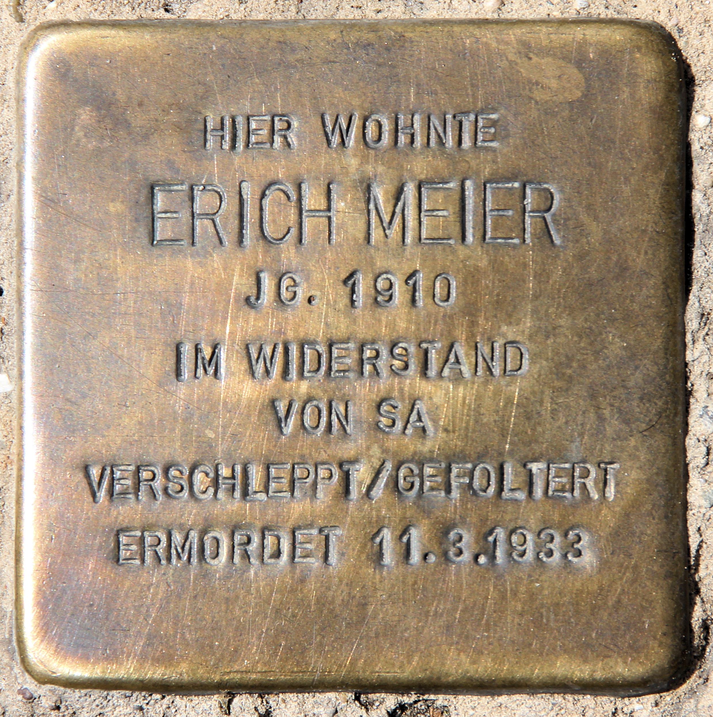 "Stolperstein" (stumbling block), Erich Meier, Kurze Str 1, Berlin-Spandau, Germany Koordinate:52°32′46″N 13°11′59″E / 52.54611°N 13.19972°E